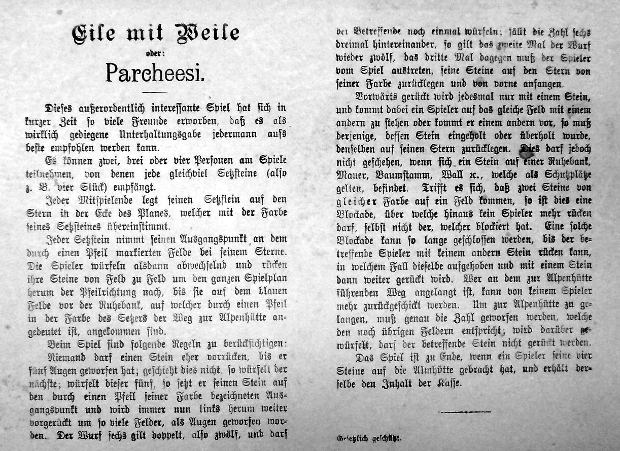 Rules of the game Eile mit Weile ~1900